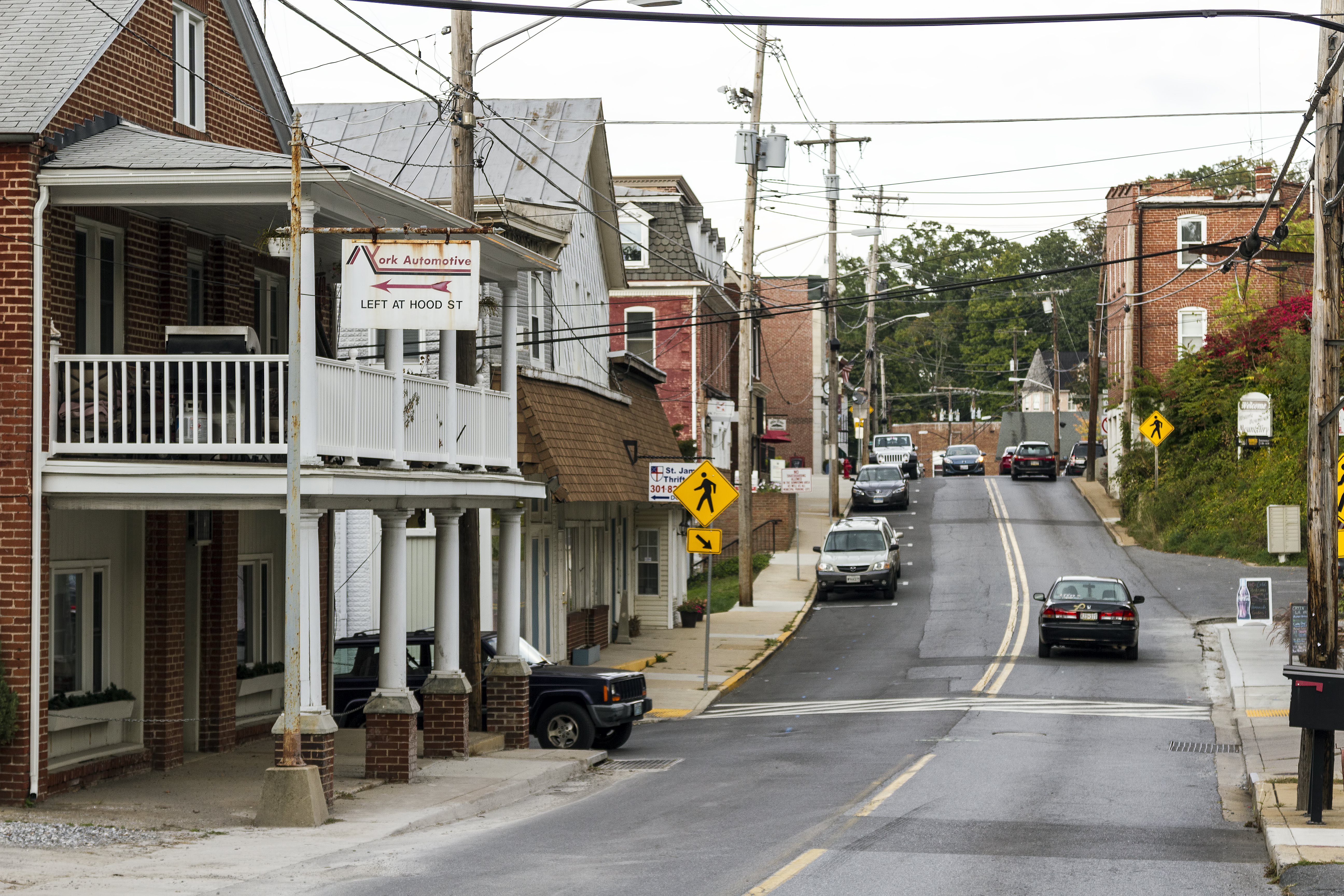 Mount Airy Historic District, Mount Airy, Maryland, USA. Main Street, downtown.